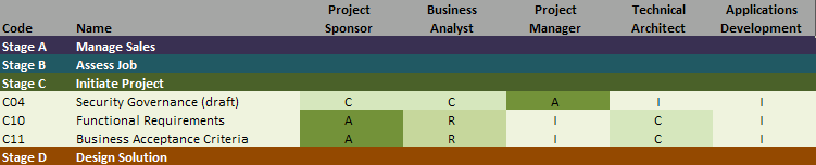 The RACI Matrix shows responsibilities for a task or set of deliverables (i.e. who is Responsible for doing the work; who will be Accountable for it; who will be Consulted about it; and who will be Informed about it).